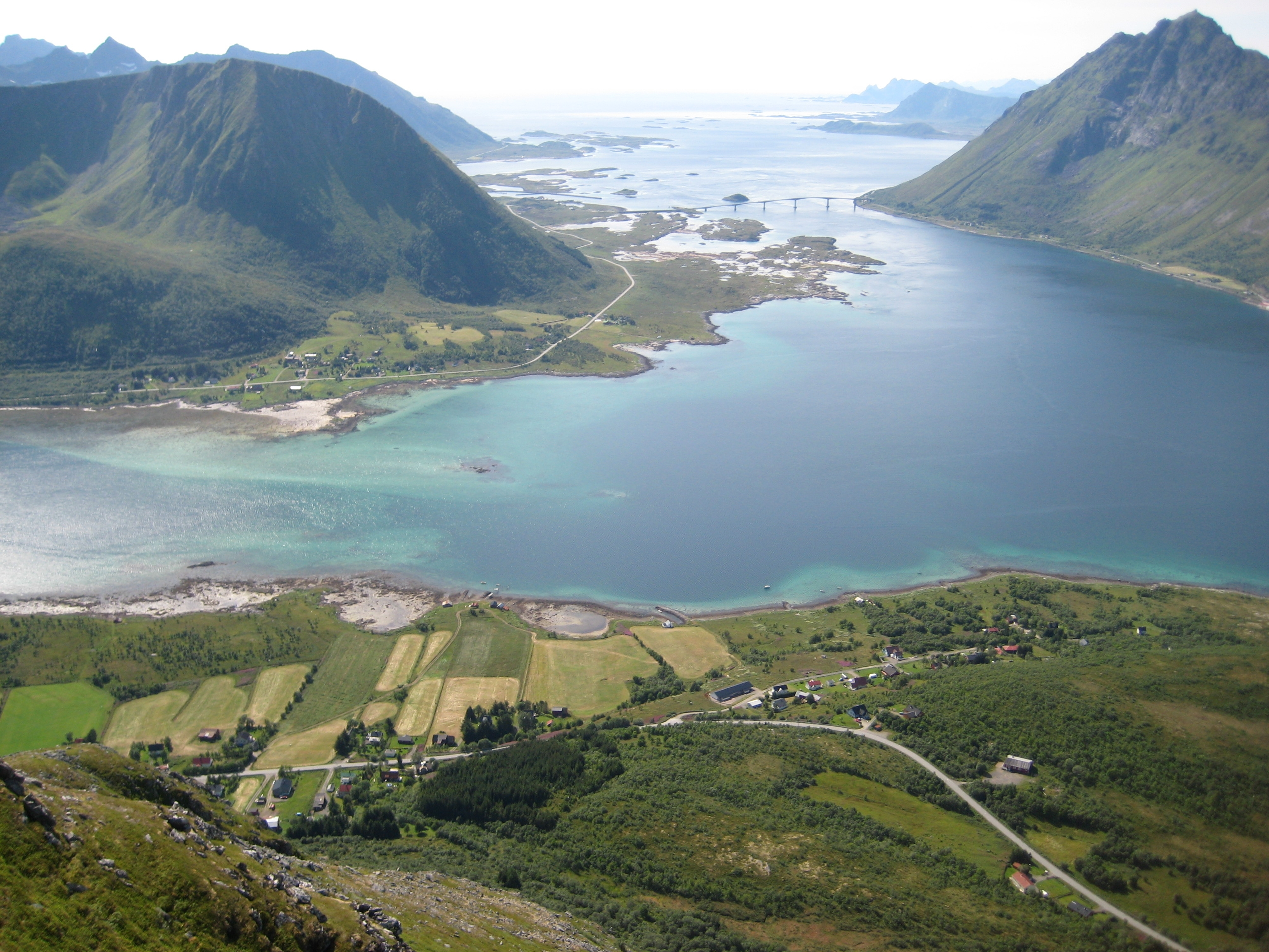 Picture of Gimsøystraumen that has given name to the Strauman area. Taken in summer of 2009.